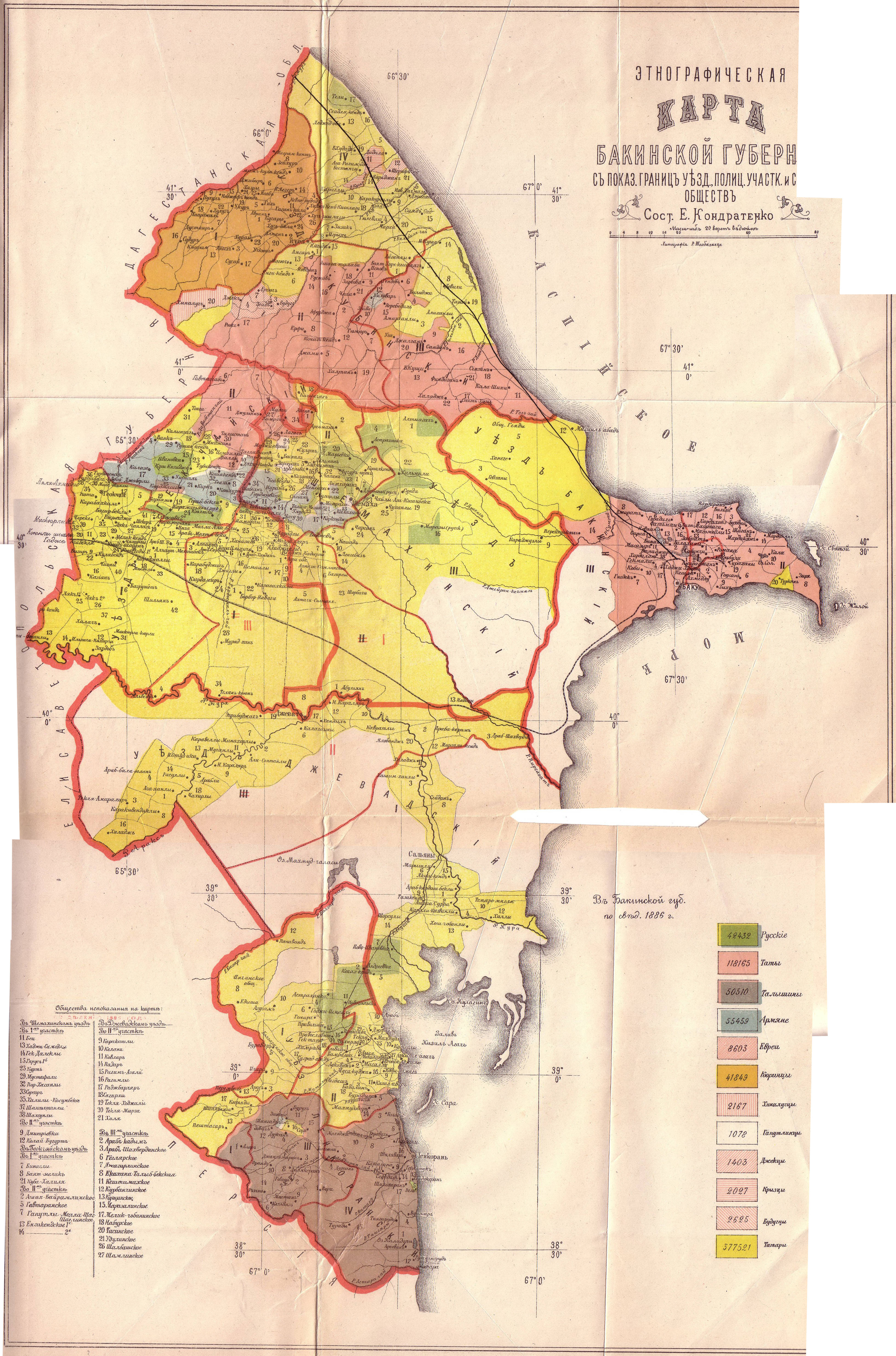 Ethnographic map of the Baku Governorate